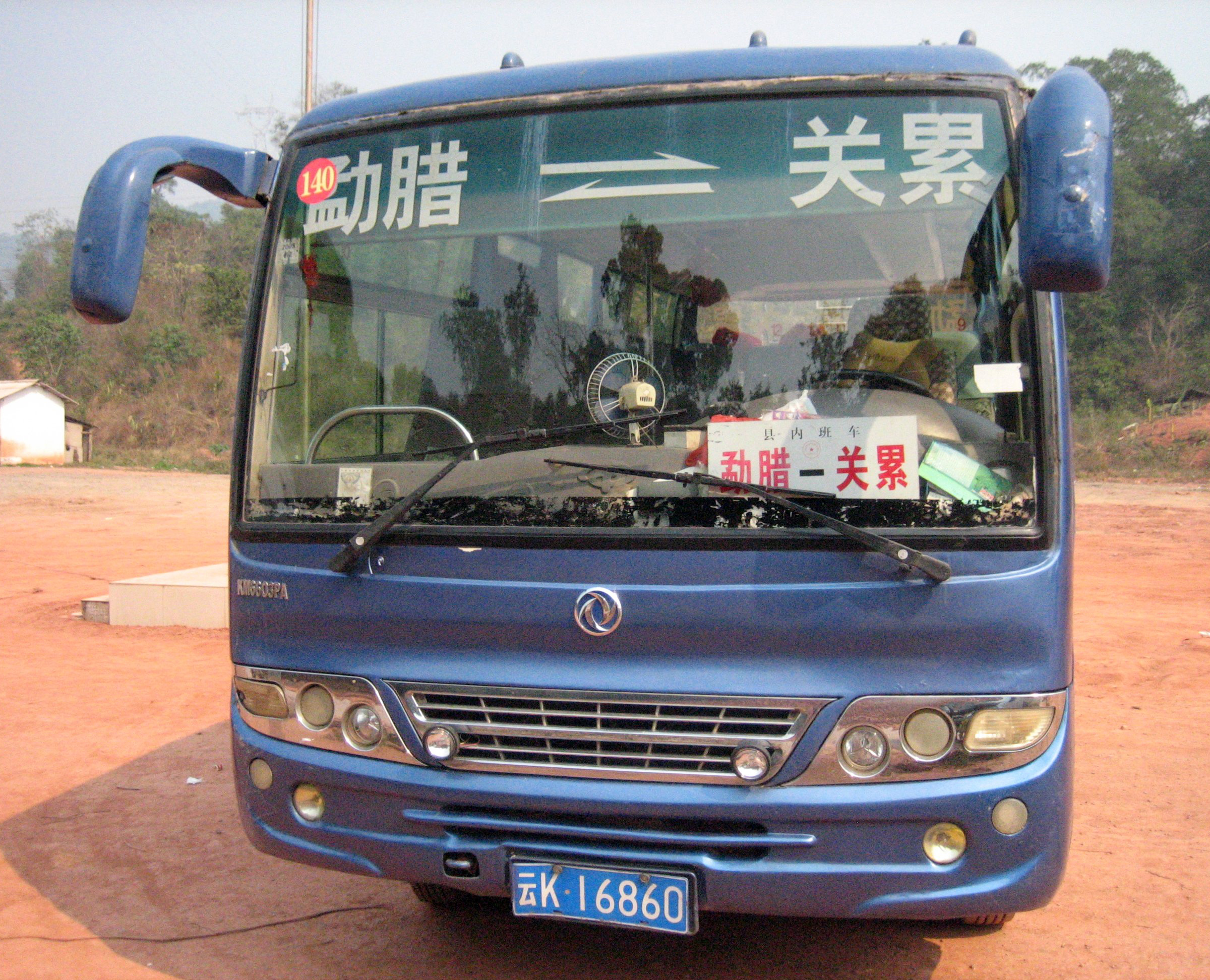 Long distance Dongfeng KM6603PA bus at China/Lao border